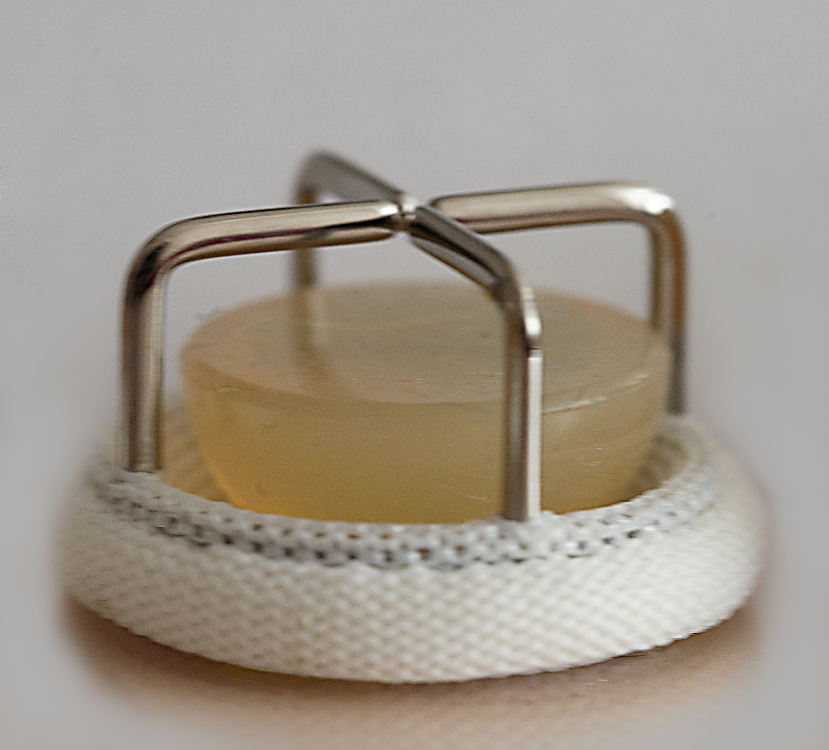 MKCH-27 artificial heart valve